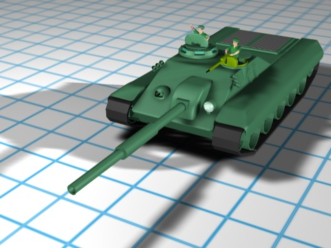 Heavy tank destroyer illustration